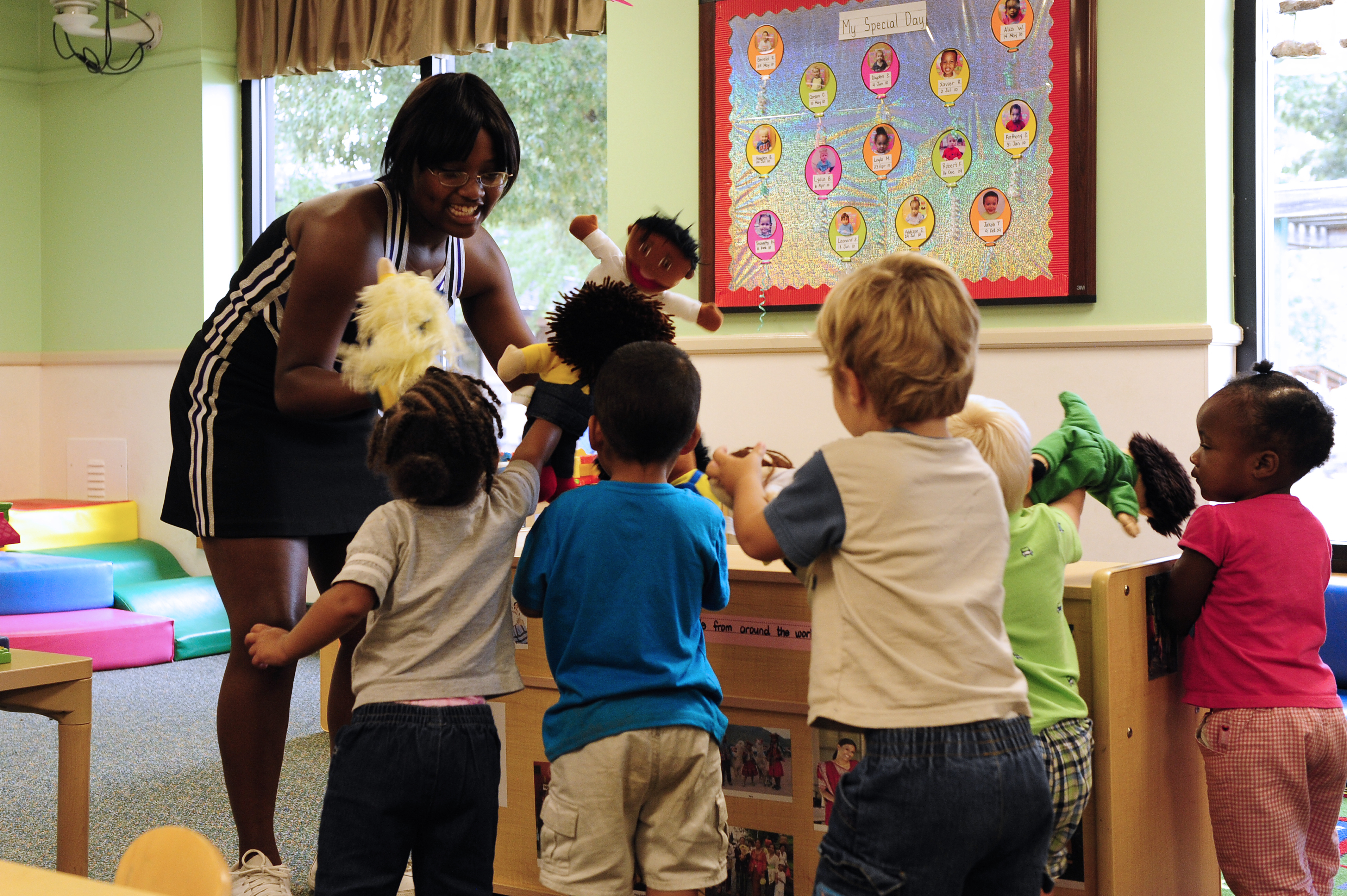 Crestwood High School varsity cheerleading captain MicKayla Ketter plays with toddler class 5-B at Shaw Air Force Base, S.C., Aug. 15, 2012. Ketter and members of her high schoolÕs cheer squad came to teach children about sportsmanship and teamwork.